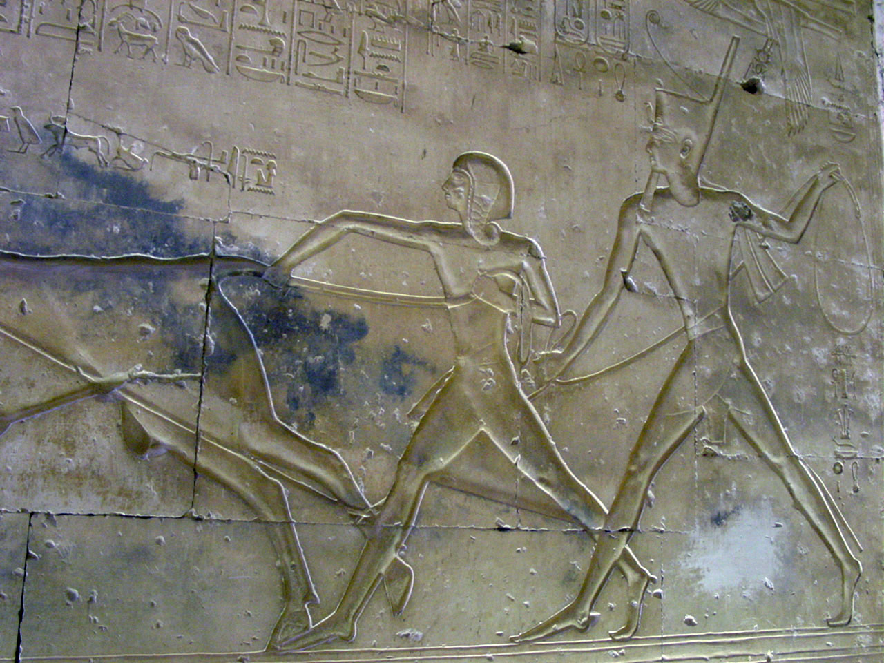 A relief depicting prince Amun-her-khepeshef (left) and Ramesses II (right) from the Temple of Abydos. Amun-her-khepeshef was the 'first born son' of pharaoh Ramesses II.